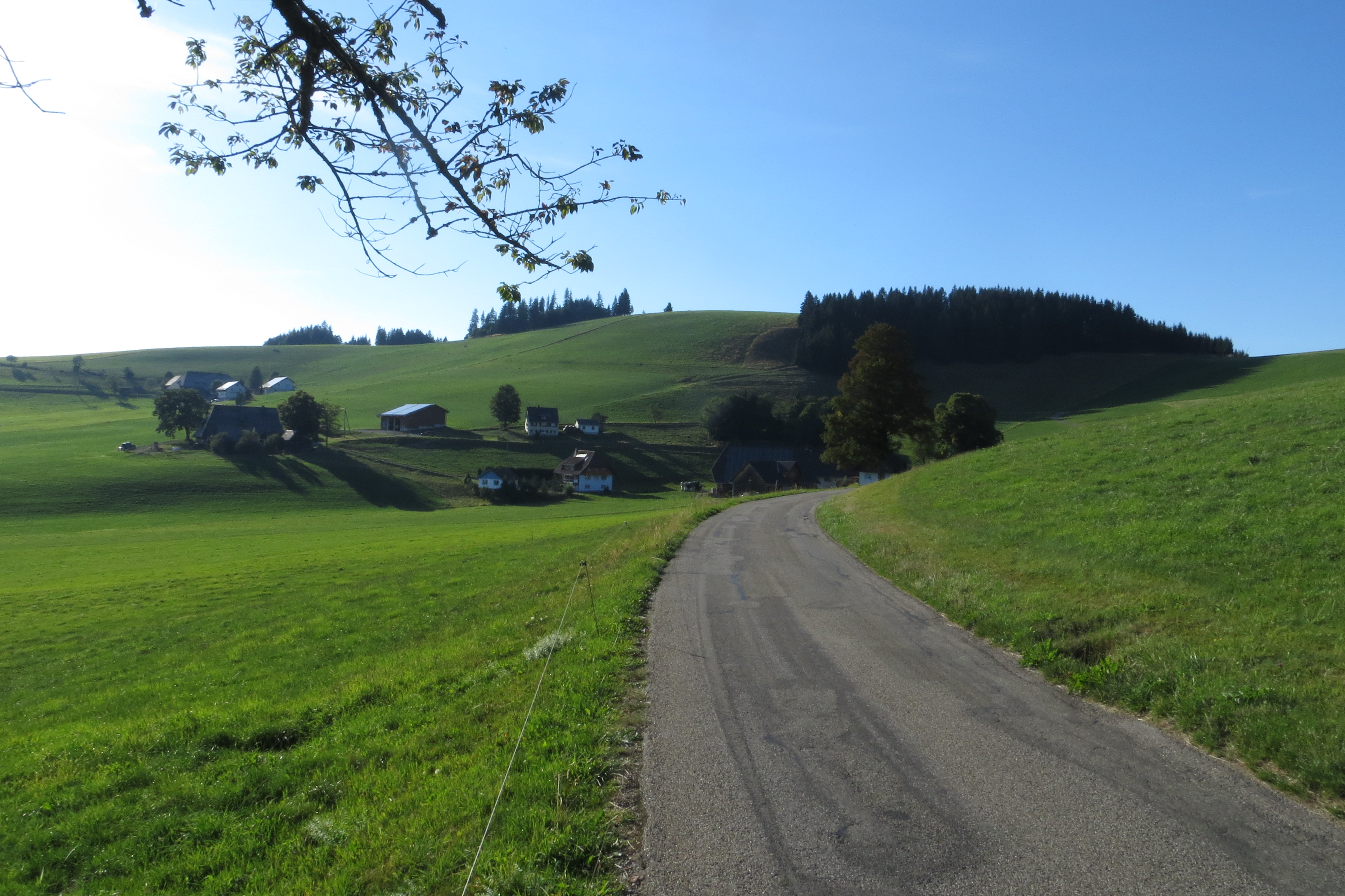 The Hohwart from the Vogtjockeleshof to the southeast. Black Forest, Baden-Wuerttemberg, Germany.